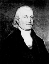 From the U.S. Senate Historical Office